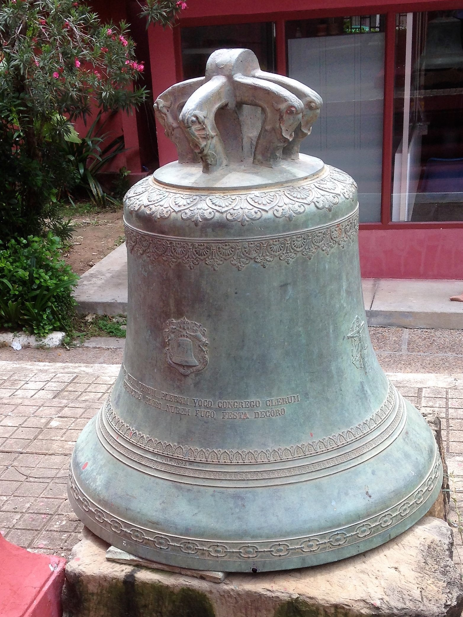 bell of the former cathedral of Phnom Penh, now in the National Museum